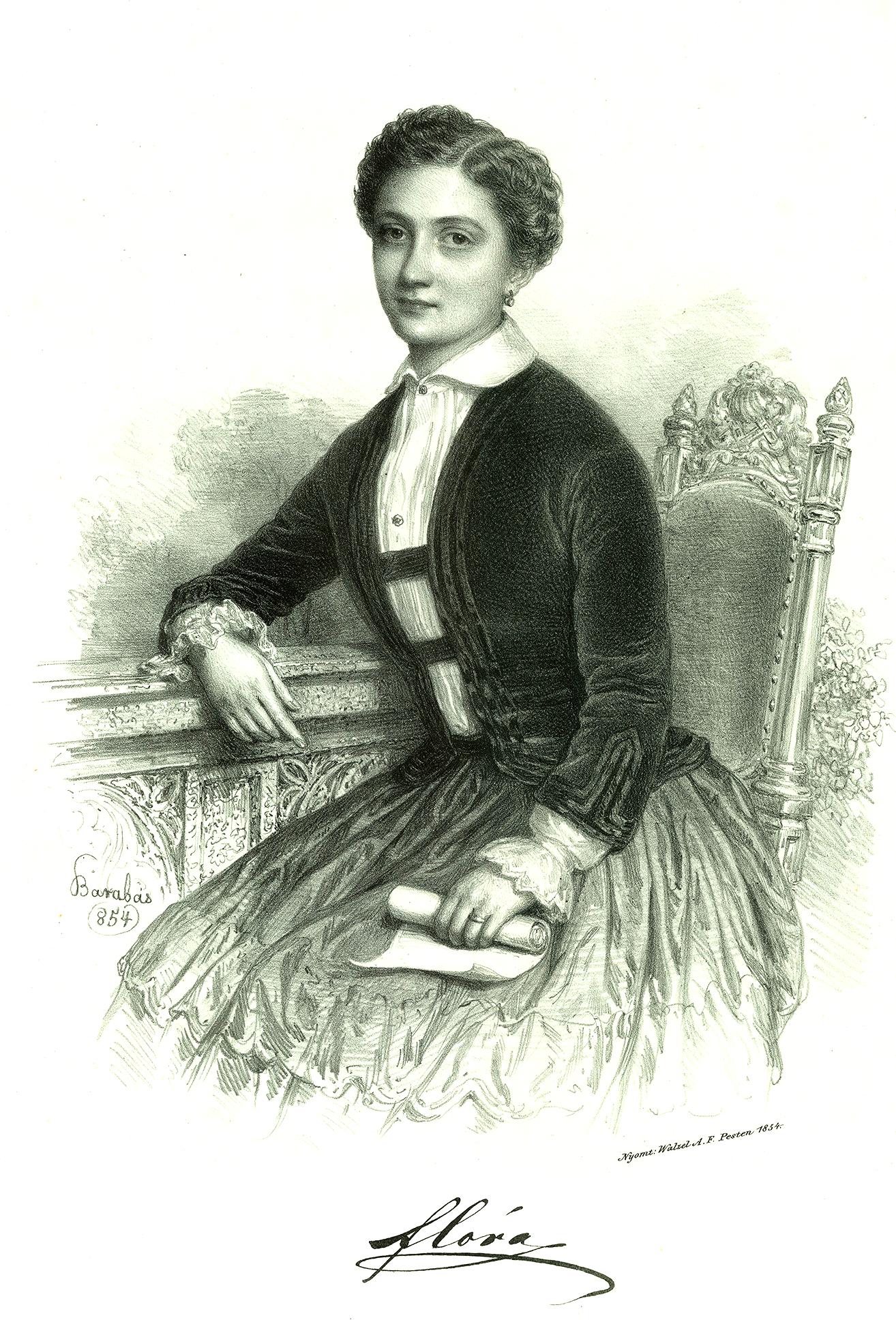 Majthényi Flóra (Novák, 1837. július 28. – Budapest, 1915. május 18.) költőnő